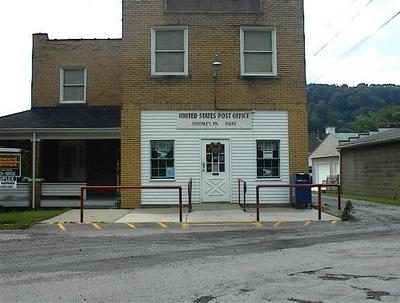 Schenley, Pennsylvania. Place: The United States Post Office in Schenley, PA. Low resolution version. Taken by Clinton N. Godlesky. From personal collection.